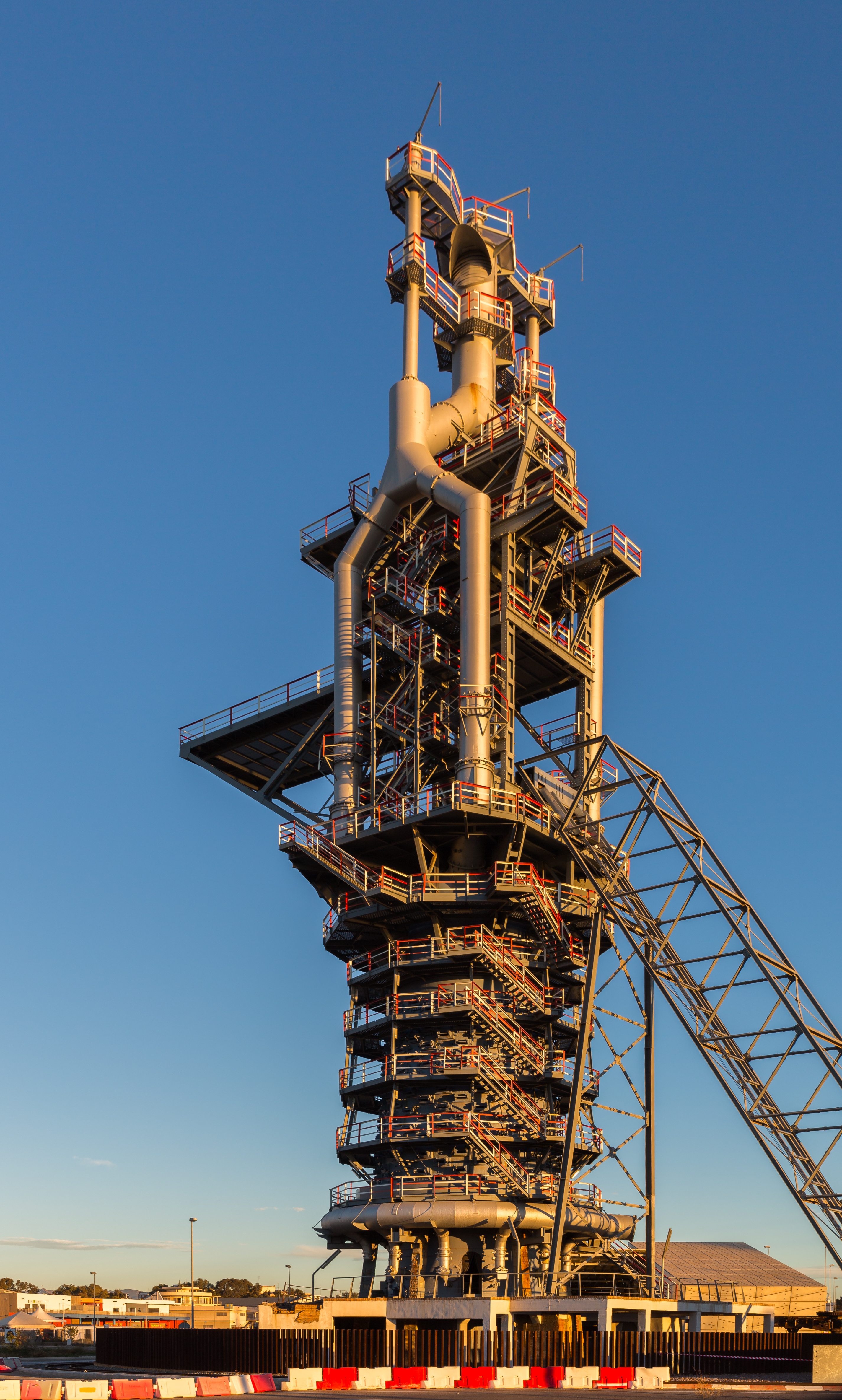 Blast furnace, Port of Sagunto, España